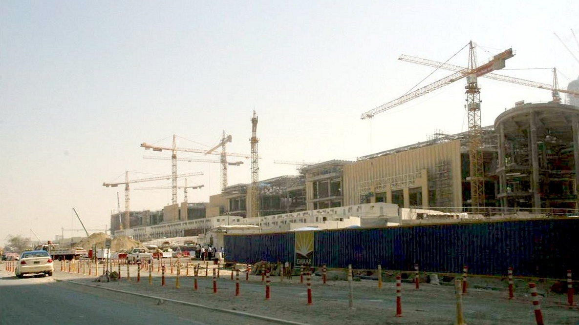 This is a photo showing the construction of the Dubai Mall located in Downtown Dubai in Dubai, United Arab Emirates on 25 February 2007.